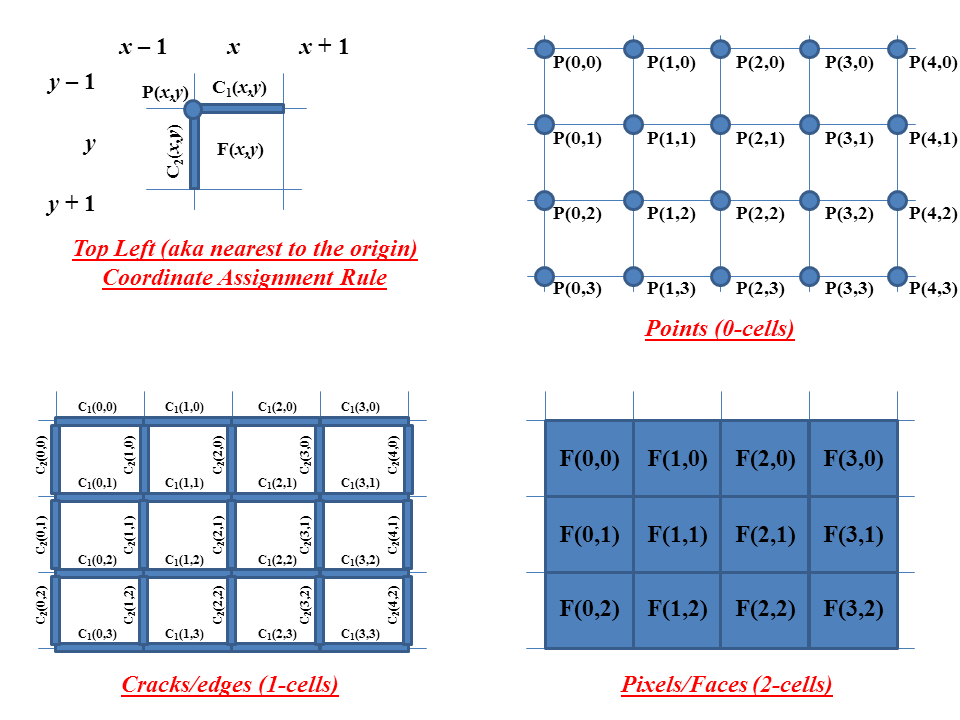 Enumerating how the various dimensional components of an Abstract Cell Complex digital image representation each render under the Top Left (aka nearest to the origin) coordinate assignment rule.